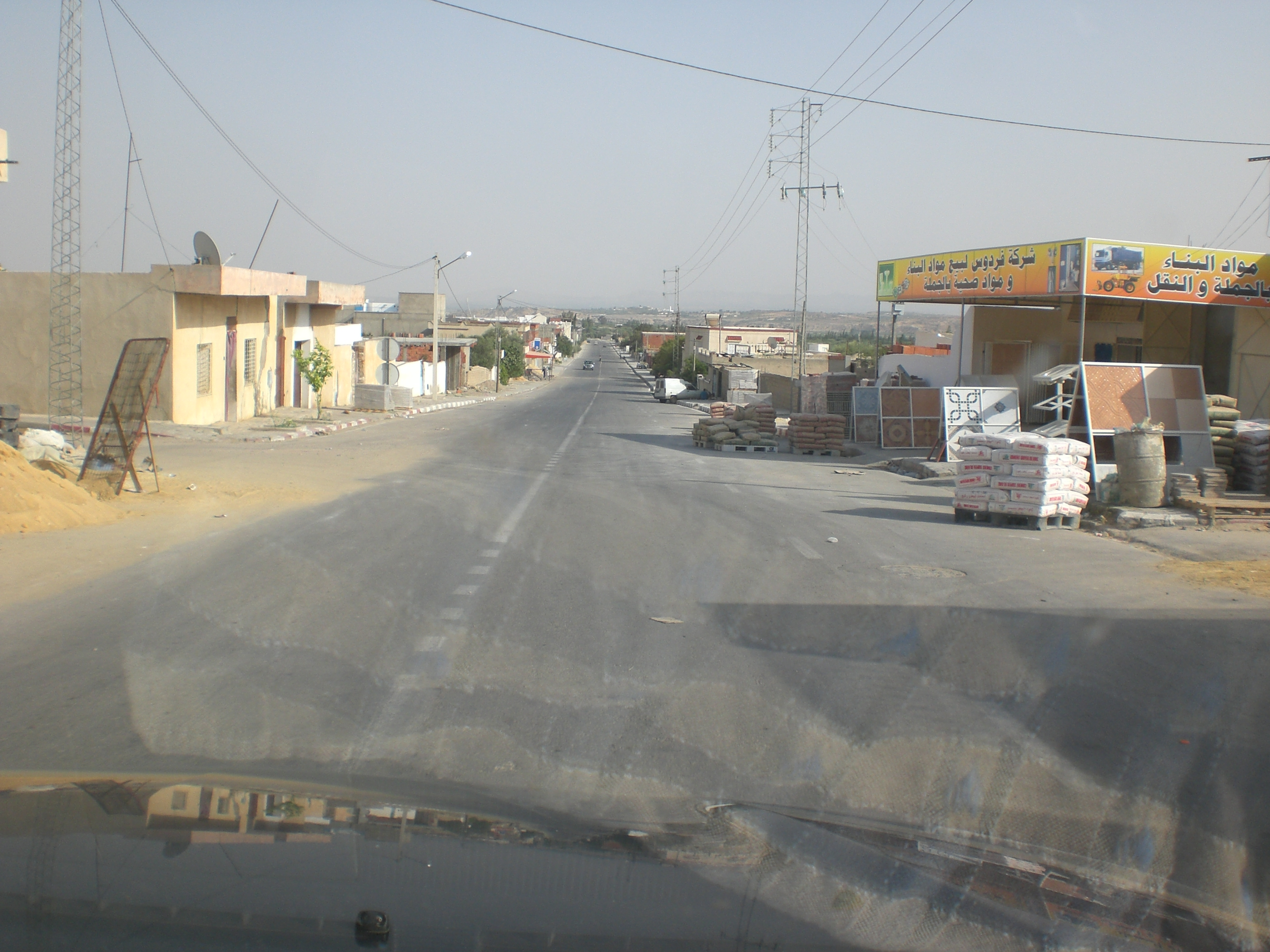 Haffouz town